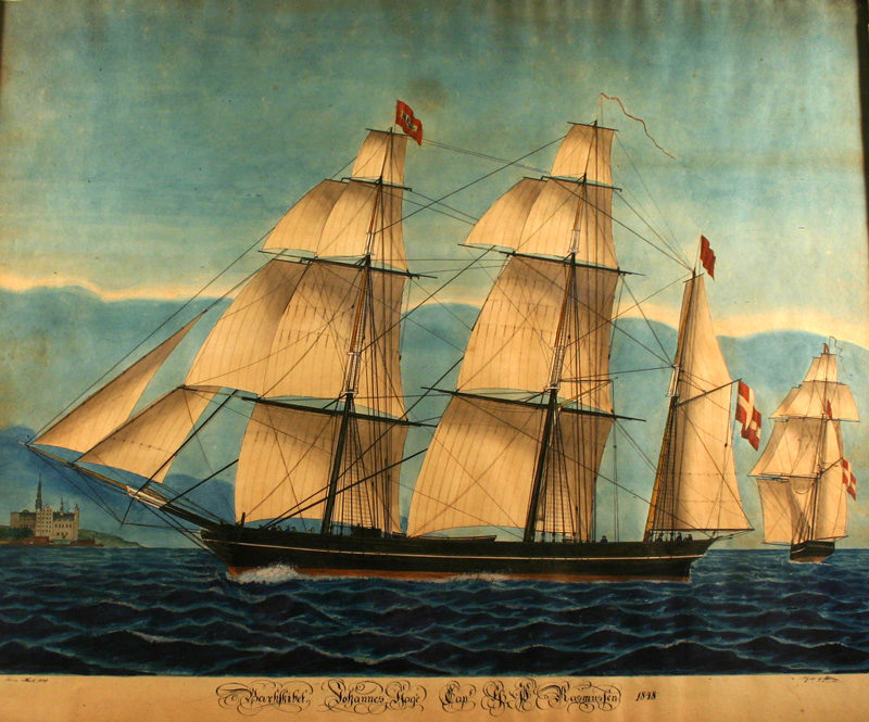 The Hans Puggaard &Co-owned ship Johannes Hage (type: Skinnertbrig)